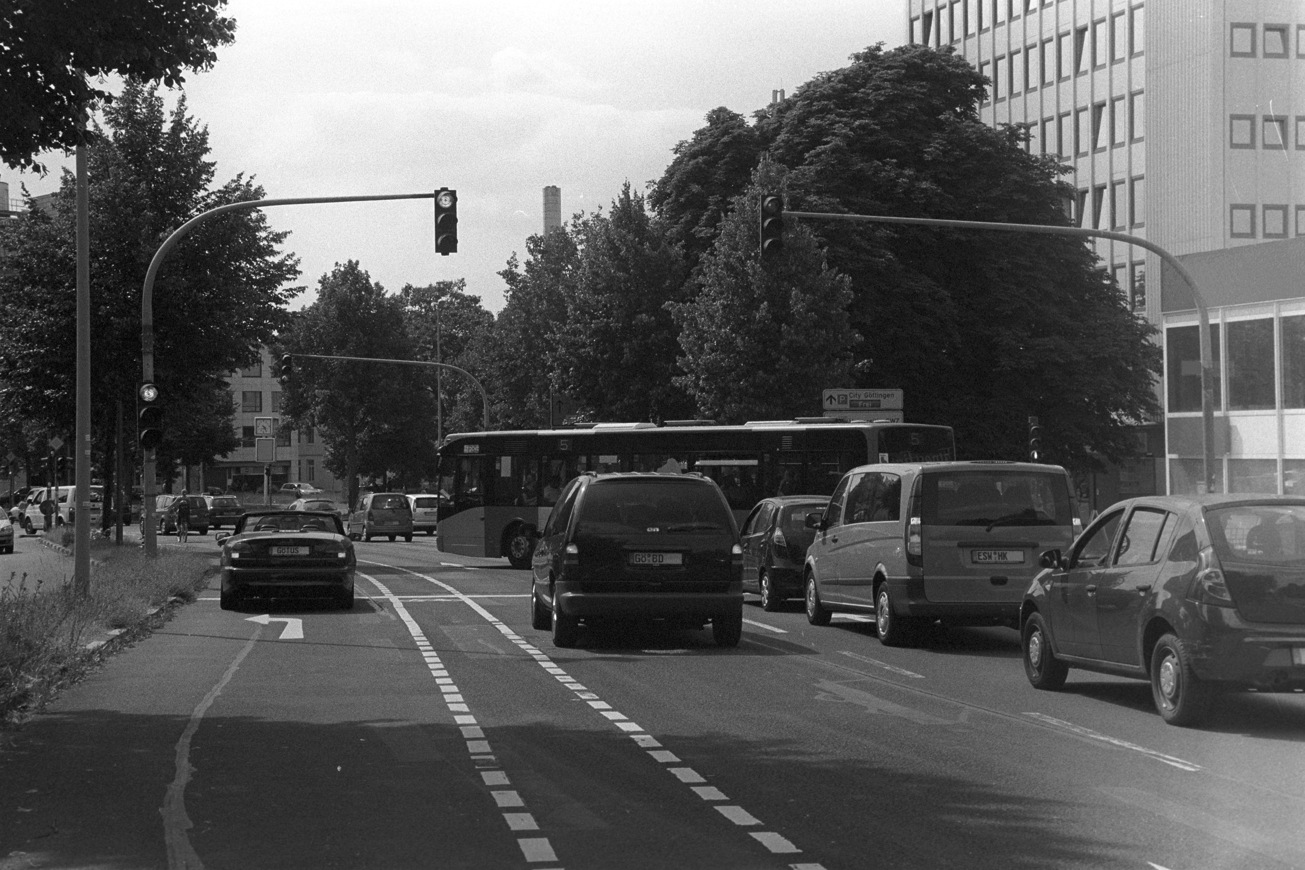 While the individual traffic is hold by the traffic lights, the bus can cross all lanes and proceed turning left at the main intersection.This photograph was taken with an Ilford HP5 plus 400